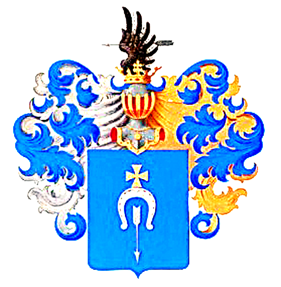 Coat of Arms of family Bychowski